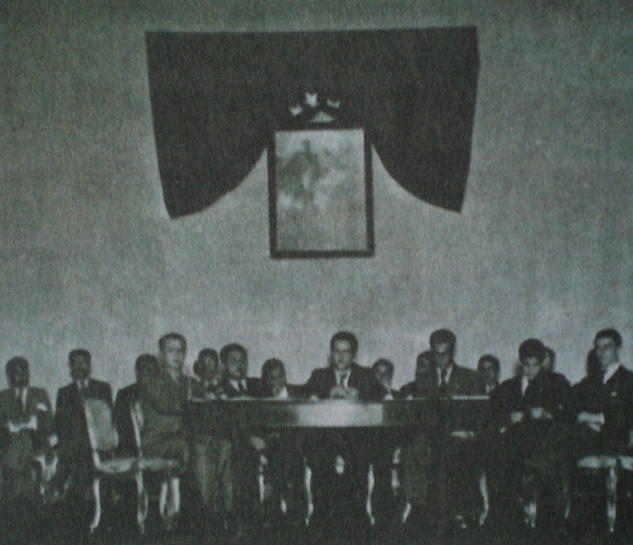 Rafael Caldera (center) and the National Union of Students.